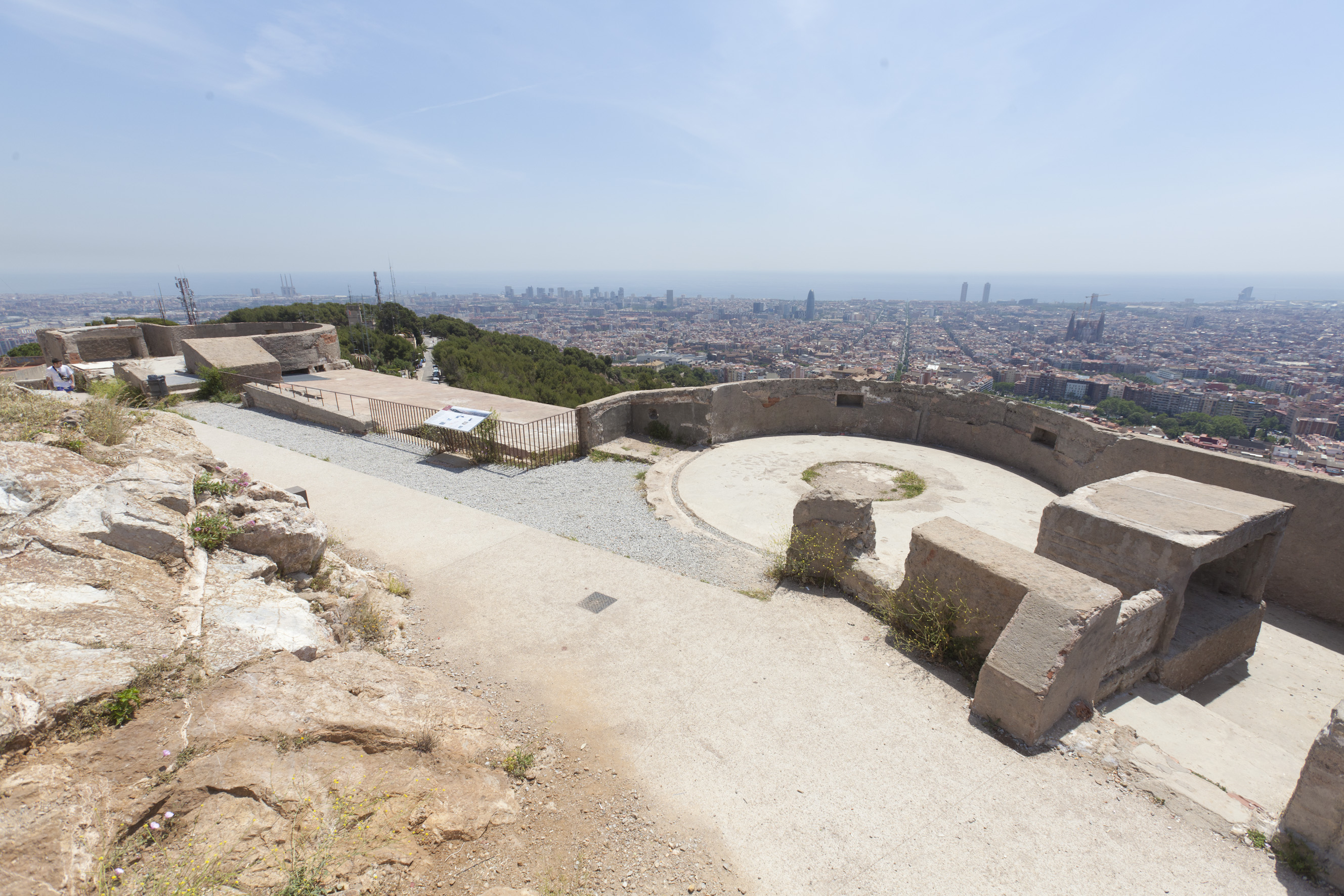 Historical Routes at the Horta-Guinardó District Administration in Barcelona This image was provided to Wikimedia Commons by the Horta-Guinardó District Administration in Barcelona as part of an ongoing cooperative project with Amical Viquipèdia. English | +/−